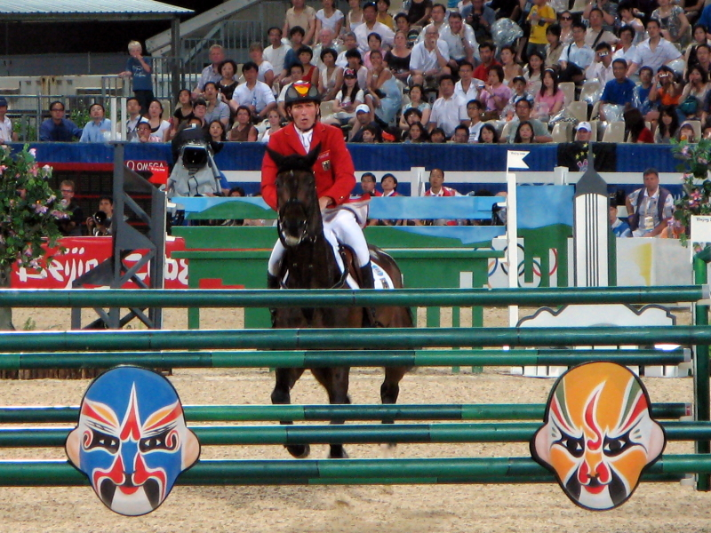 2008 Olympic Games equestrian in Sha Tin